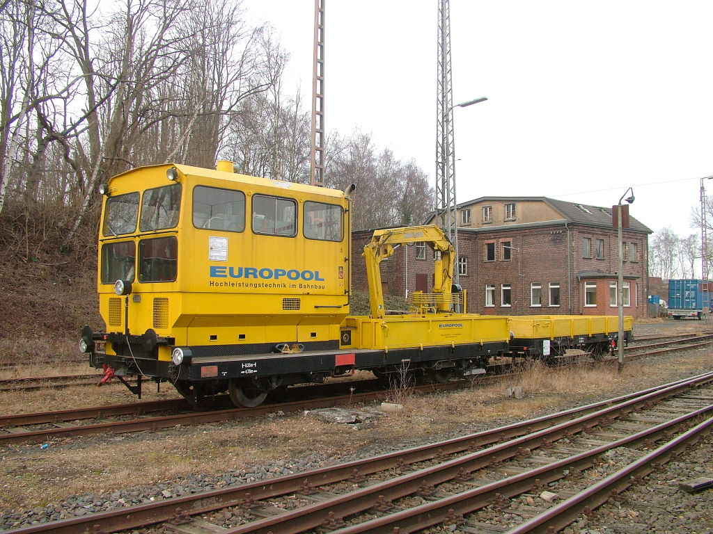 Track maintenance car Klv 54-0020 (former DB), now deployed by track maintenance company Europool